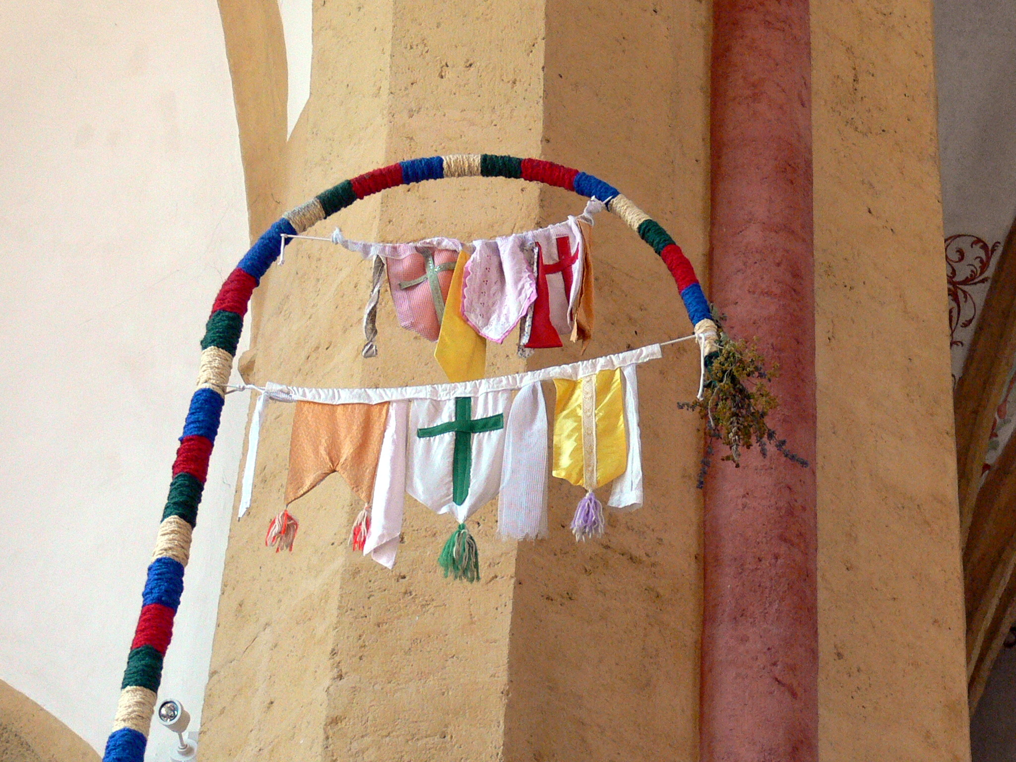 Hüttau ( Salzburg / Austria ). Parish church: So called "Prangerstange".